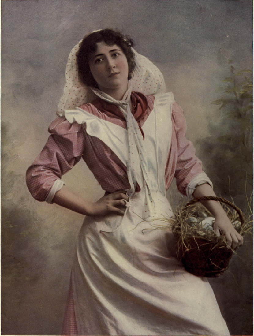 A hand-coloured cabinet photograph (c.1899/1900) of American actress Maud Evelyn Craven Jeffries (1869-1946) in the role of "Kate" in The Manxman: the original photograph was produced by W. & D. Downey of London. The image is at facing p.34 in Lawrence, B., Celebrities of the Stage, George Newnes, Limited, (London), 1900.